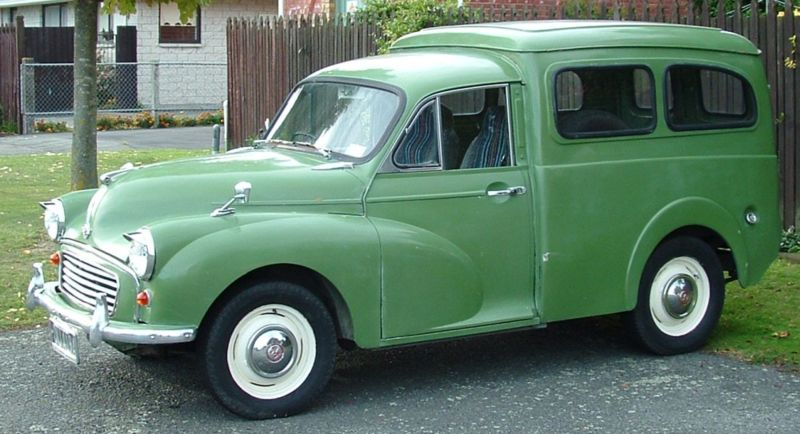 Took photo myself, 23rd April 2005, Christchurch, New Zealand, photo shows Morris Minor Van, later lights, glass in rear.